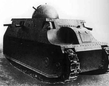 3/4 front view of the Fiat 2000 Italian heavy tank, built just after the end of WWI in 2 specimens, both untraceable after 1936.